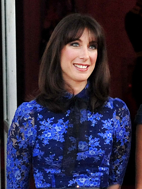 Mrs. Samantha Cameron, wife, during the Armed Forces Full Honor Cordon the north portico of the White House prior to the commencement of the State Dinner for the prime minister, March 14, 2012.